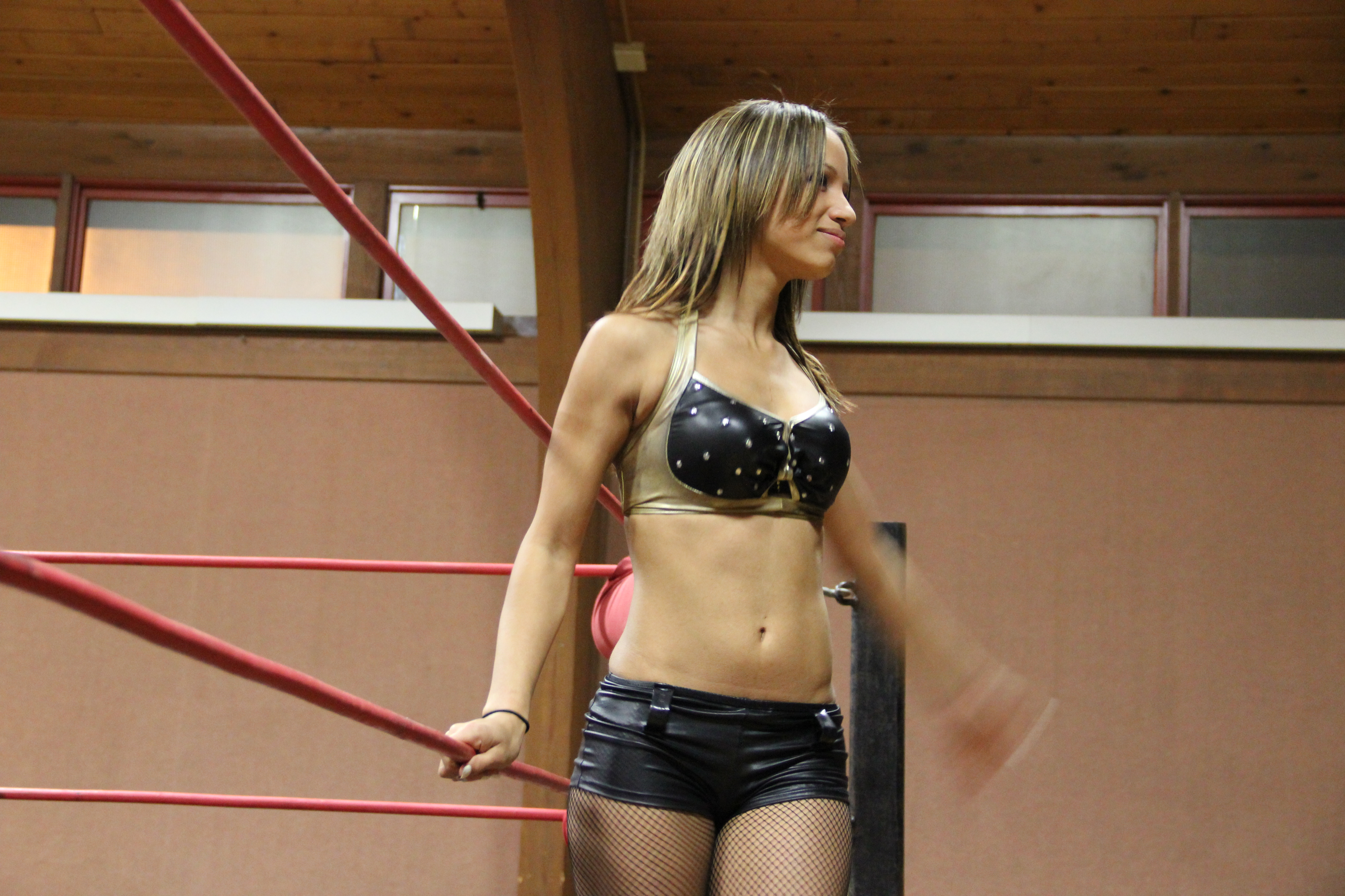 Mercedes KV at an EWA show in Feeding Hills, MA on January 14, 2012.